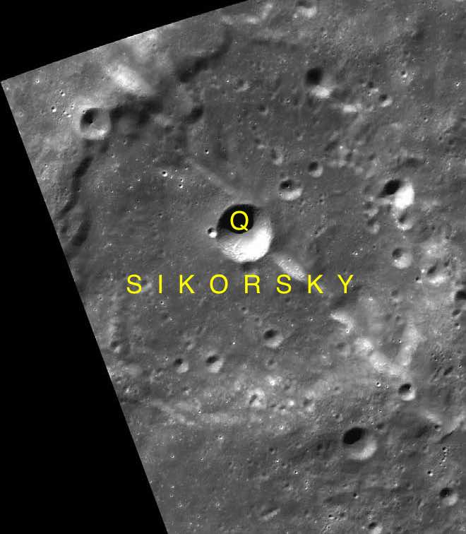 Part of the chart LAC-140 used for the presentation.